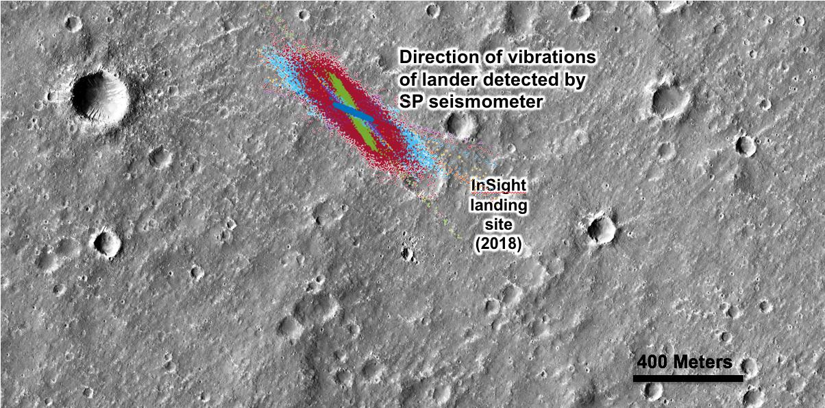 PIA22927: Of Wind and Dust Devils on Mars An annotated image of the surface of Mars, taken by the HiRISE camera on NASA's Mars Reconnaissance Orbiter (MRO) on May 30, 2014. The contrast has been enhanced in this image to better show the region where InSight landed on Nov. 26, 2018. The labels show the approximate position of NASA's InSight lander in Elysium Planitia. Overlaid on top are the direction of the vibrations detected by InSight's science instruments. The diagonal lines, faintly seen moving from upper left corner to the lower right corner of the image, show the paths of dust devils on the Martian surface. The vibrations recorded by InSight line up with the direction of the dust devil motion. The original image is at The University of Arizona, Tucson, operates HiRISE, which was built by Ball Aerospace & Technologies Corp., Boulder, Colorado. NASA's Jet Propulsion Laboratory, a division of Caltech in Pasadena, California, manages the Mars Reconnaissance Orbiter Project for NASA's Science Mission Directorate, Washington. JPL manages InSight for NASA's Science Mission Directorate. InSight is part of NASA's Discovery Program, managed by the agency's Marshall Space Flight Center in Huntsville, Alabama. France's Centre National d'Études Spatiales (CNES) and the Institut de Physique du Globe de Paris (IPGP), provided the SEIS instrument, with significant contributions from the Max Planck Institute for Solar System Research (MPS) in Germany, the Swiss Institute of Technology (ETH) in Switzerland, Imperial College and Oxford University in the United Kingdom, and JPL. For more information about the mission, go to